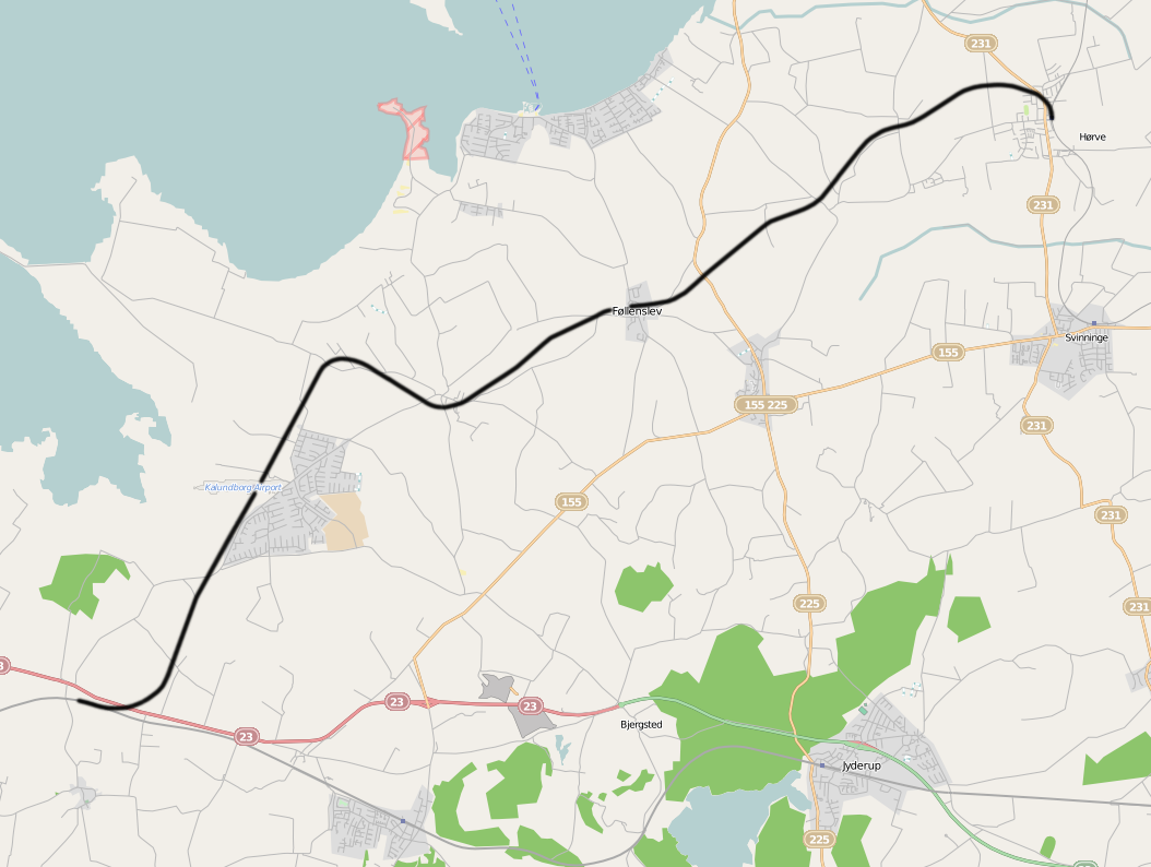 Railway line Hørve - Værslev